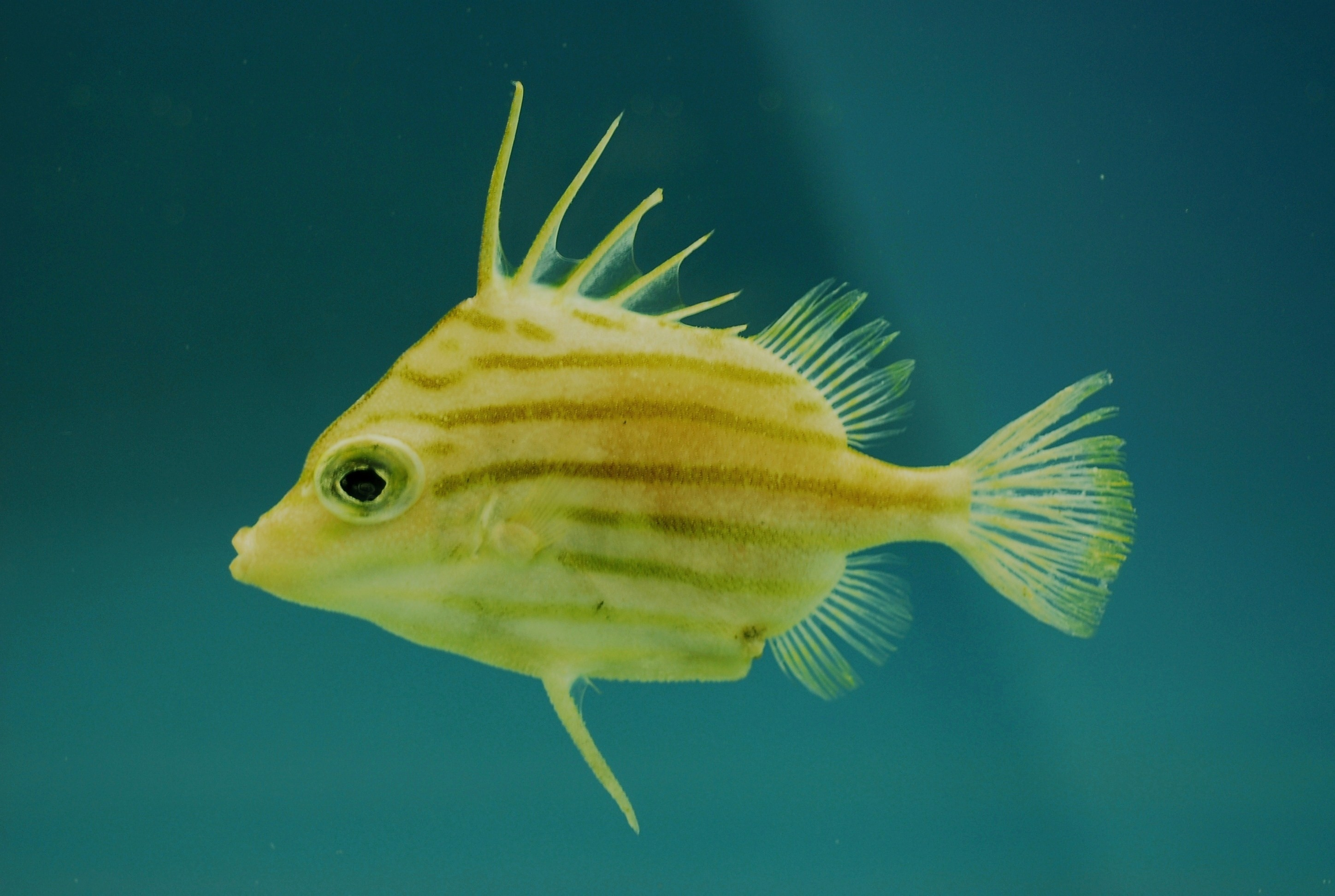 Jambeau ( Parahollardia lineata ). Gulf of Mexico.